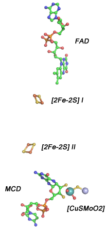 The positions of cofactors FAD and MCD, Mo-Cu cluster, and two FeS clusters in Mo-CODH